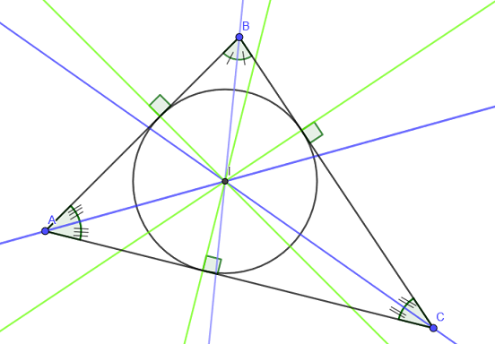 The point of intersection of angle bisectors of the 3 angles of triangle ABC is the incenter ( denoted by I). The incircle (with center I) touches each side of the triangle.